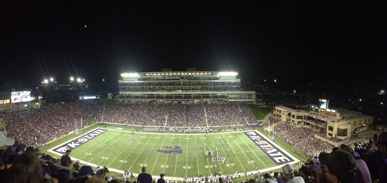 20 Wildcats vs Lumberjacks